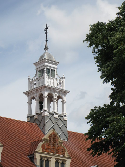 The spire of St Michael and All Angels, Bedford Park, W4